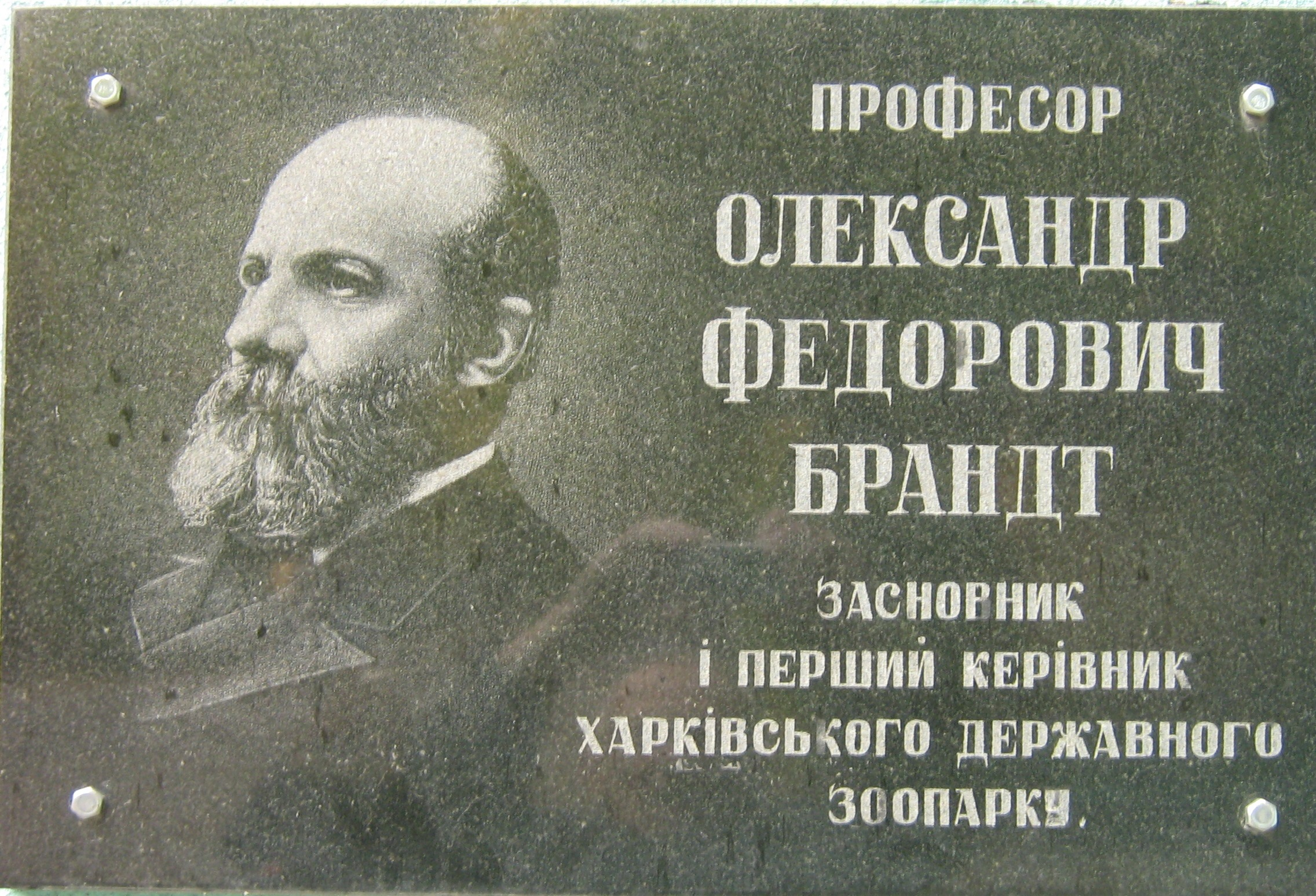 Olexandr Fedorovich Brandt.